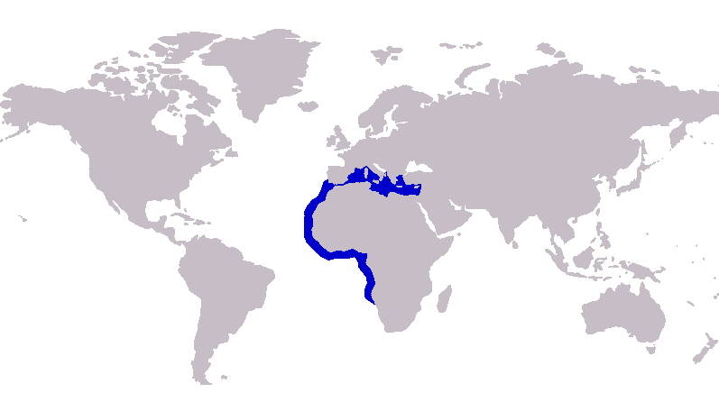 Distribution of false scad, Caranx rhonchus using map based on GDFL image